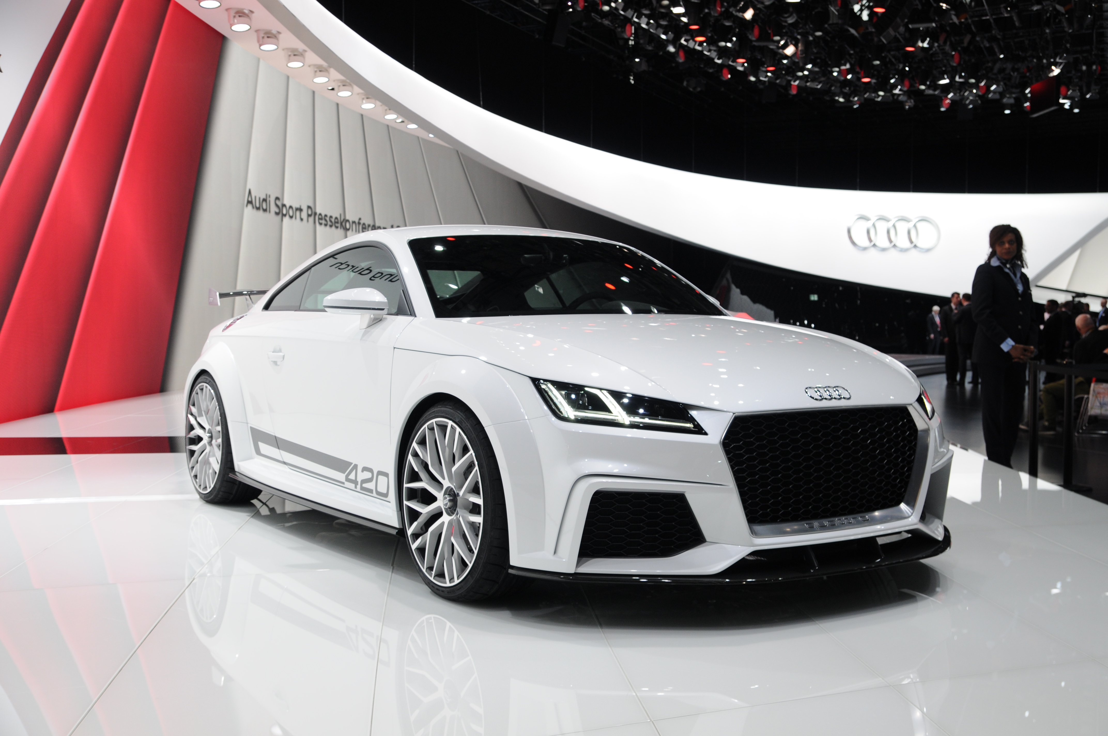 Geneva Motor Show 2014 (photo taken on the first press day)